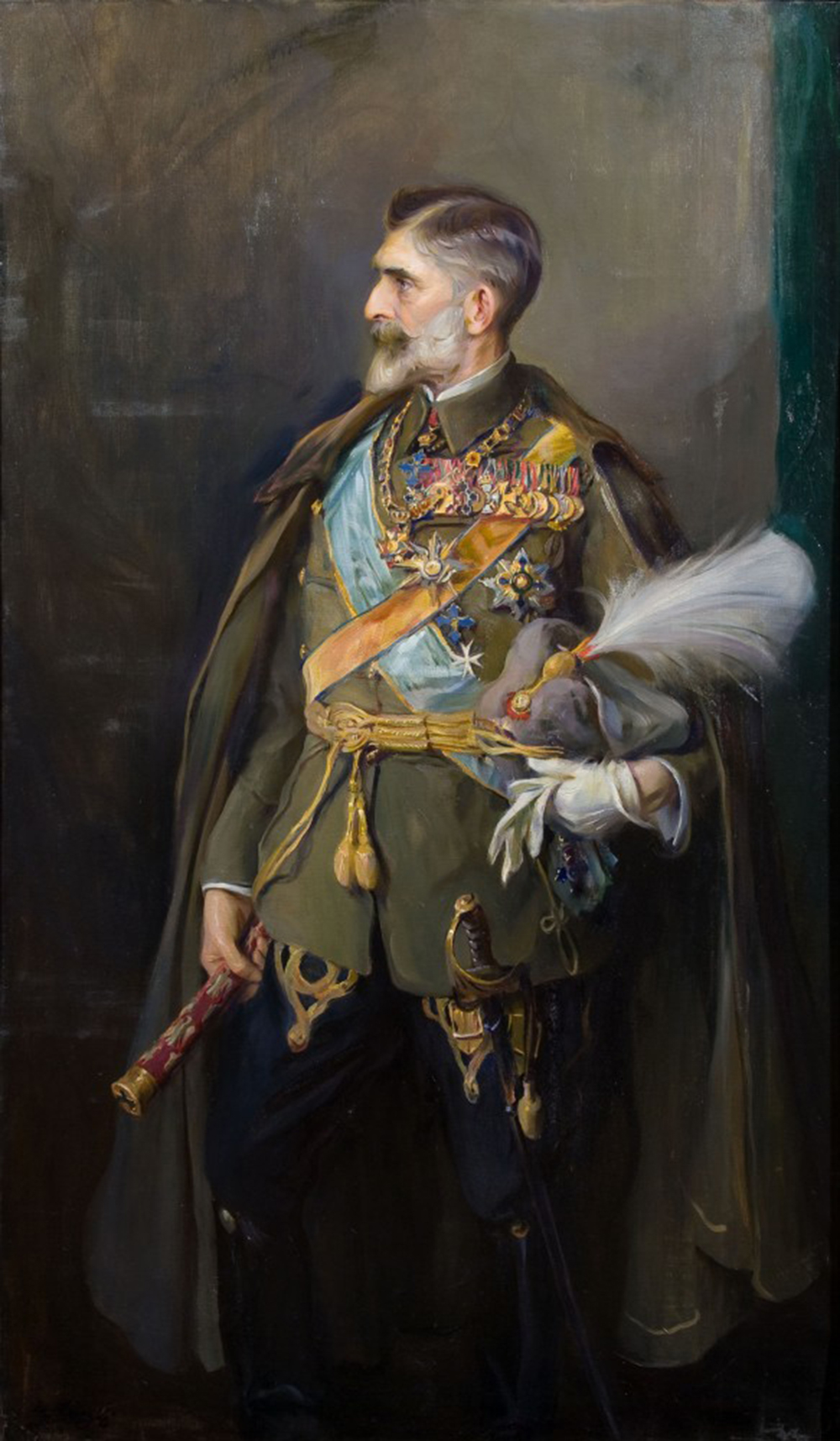 Portrait of Ferdinand I, King of Romania, Prince of Hohenzollern-Sigmaringen by Philip de László.